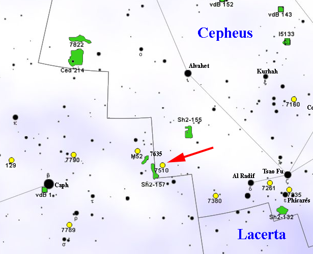 Map of NGC 7510